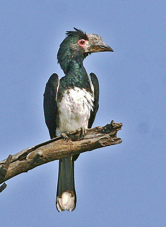 A female Trumpeter hornbill at Livingstone, Southern Province, Zambia